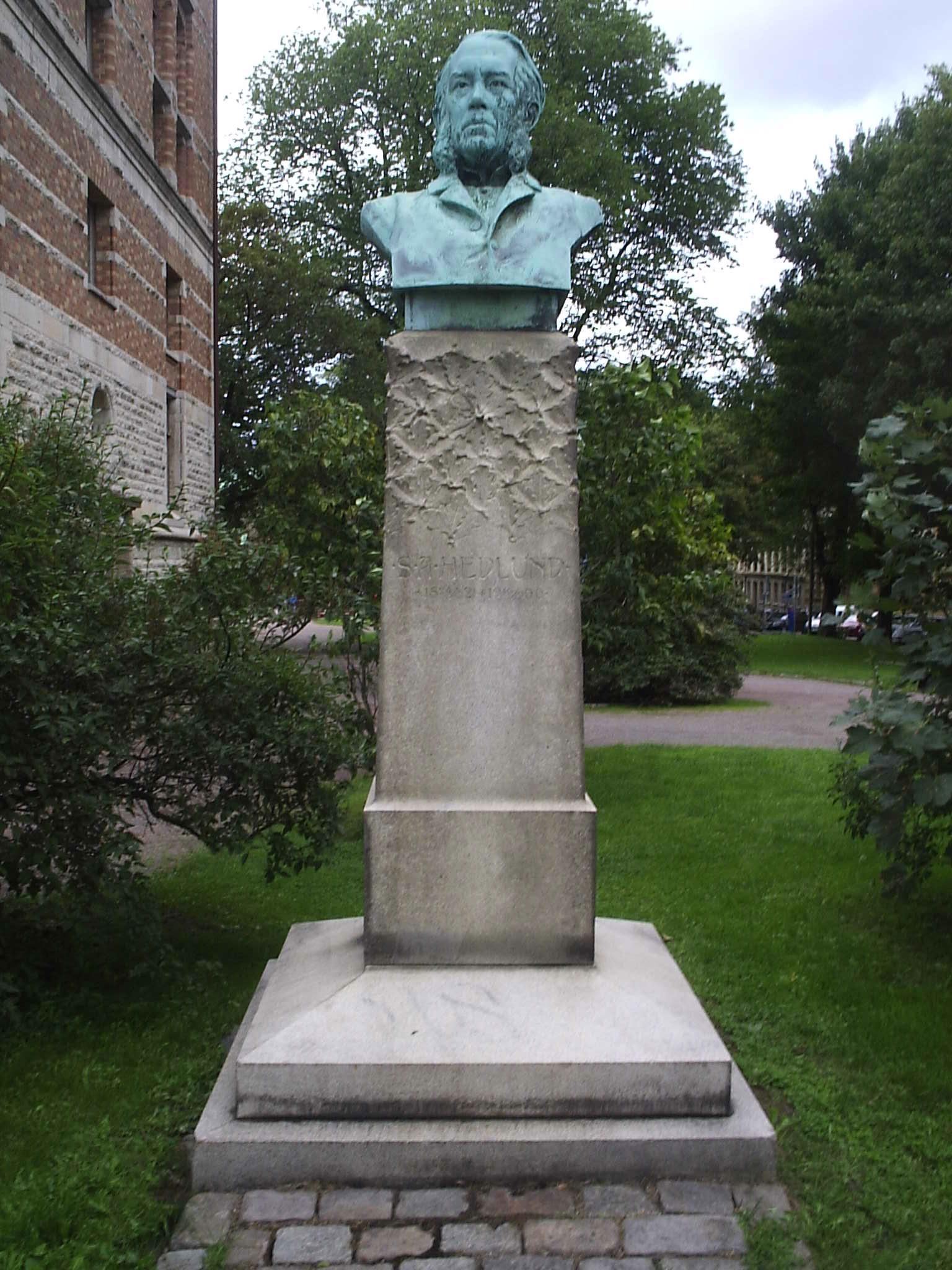 Bust of Parliament member Sven Adolf Hedlund, in front of Göteborg University's library of course literature and journals. Photo by Harri Blomberg.